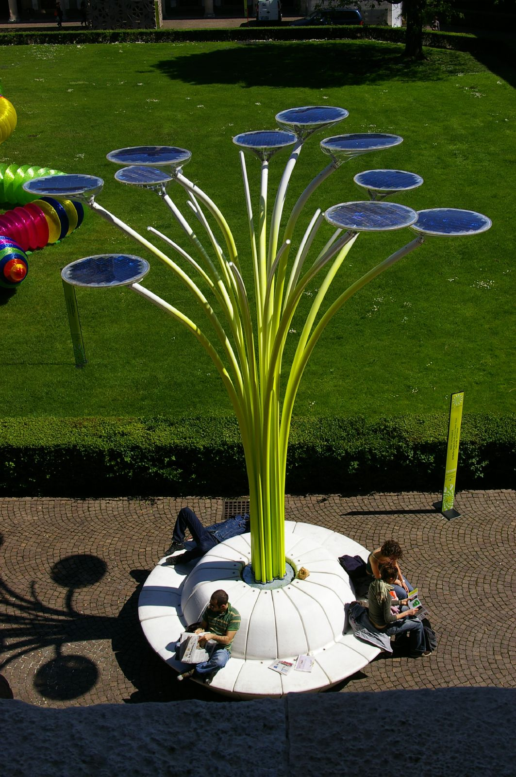 Ross Lovegrove Solar Tree on display.